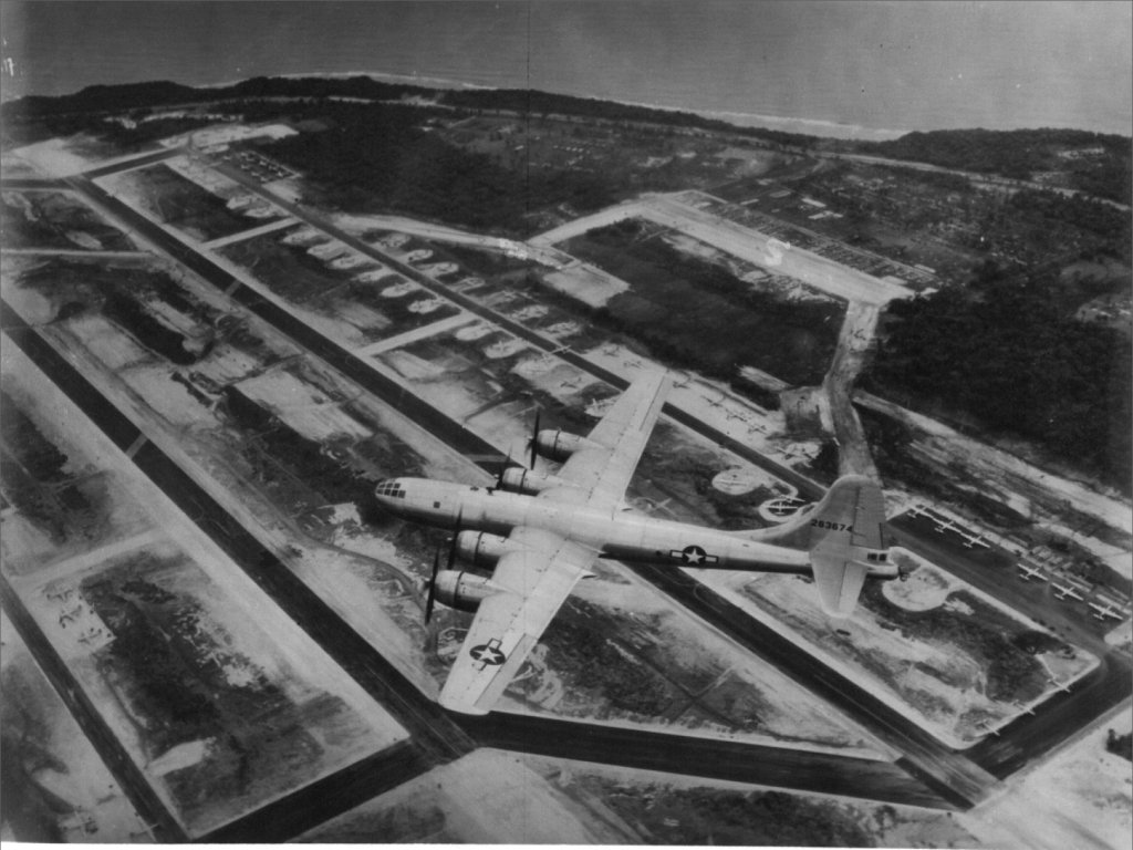 A U.S. Army Air Force Boeing (Bell-Atlanta built) B-29B-35-BA Superfortress (s/n 42-63674) in flight over Northwest Field, Guam. Records indicate this particular bomber was assigned to the 315th Bomb Wing, 501st Bomb Group.